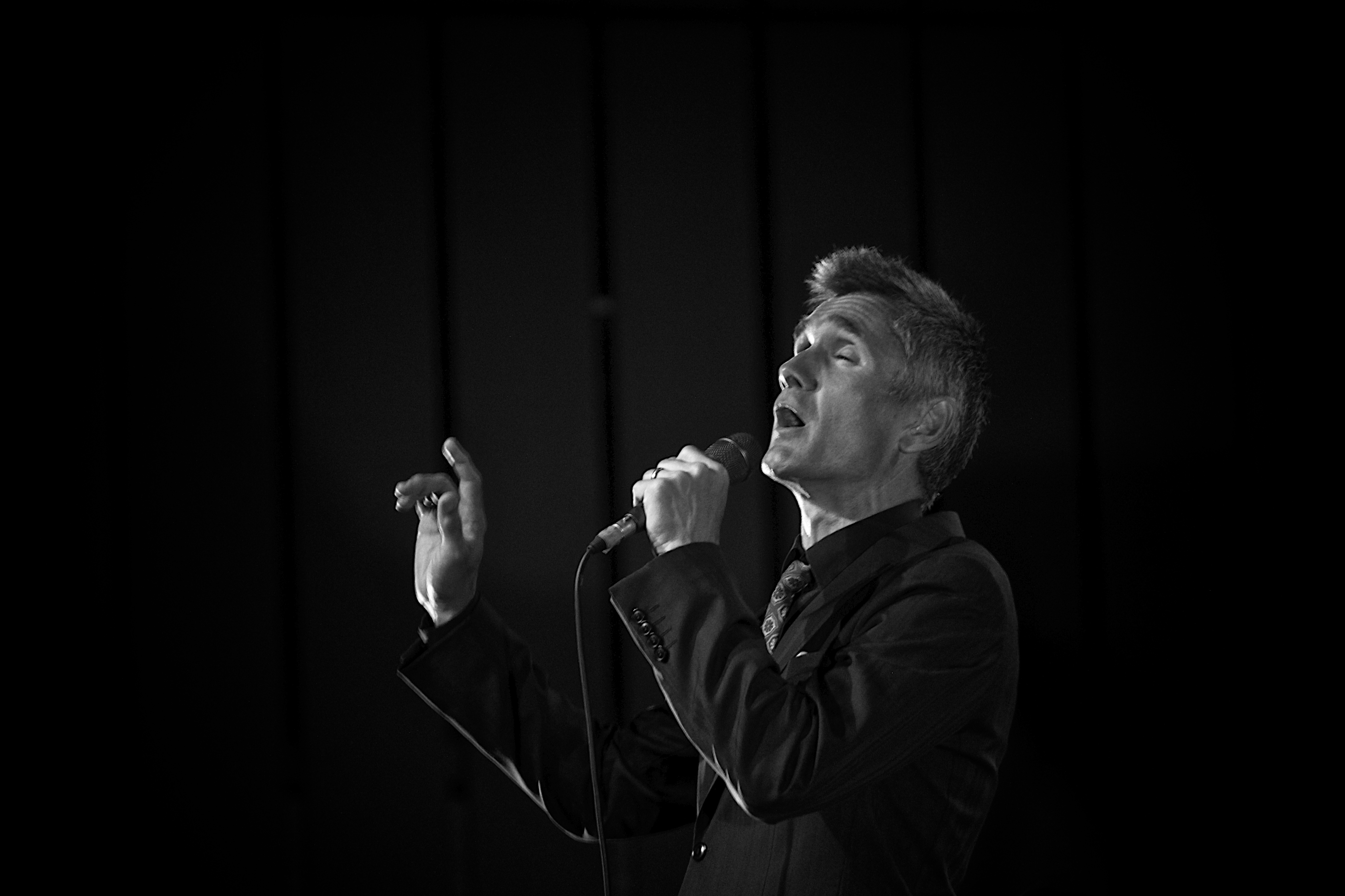 Curtis Stigers live in Wigan, Lancs., England, UK.